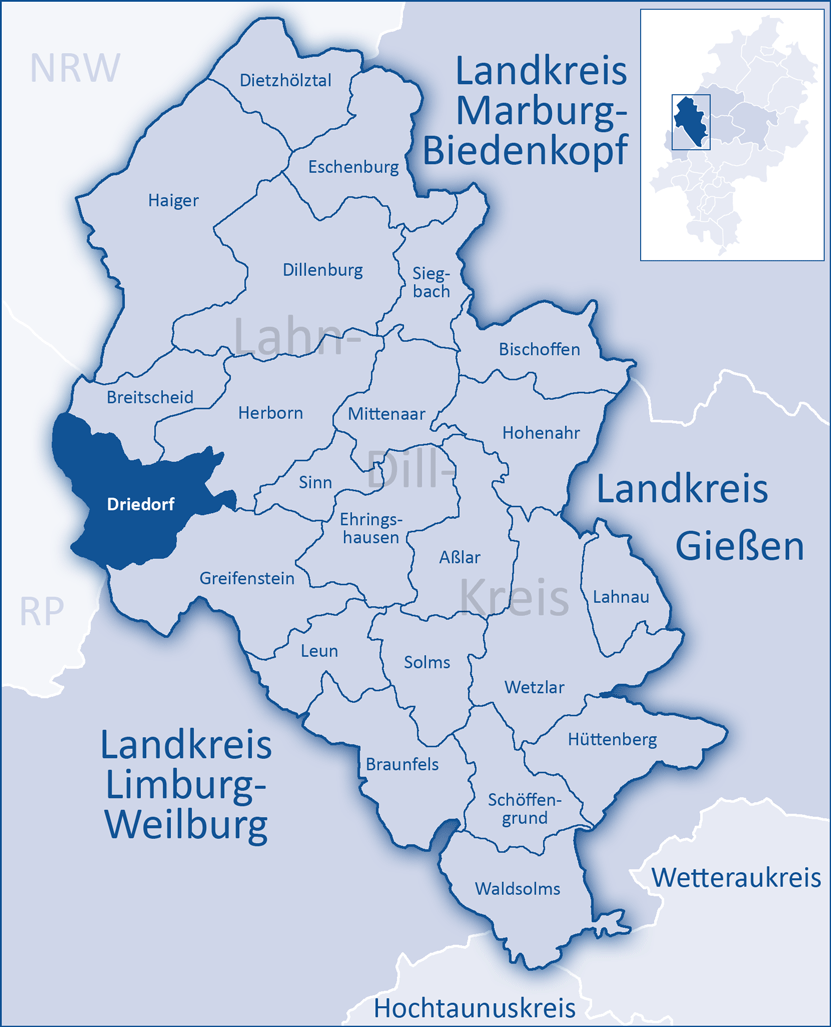 The map shows a district in the area of Lahn-Dill-Kreis